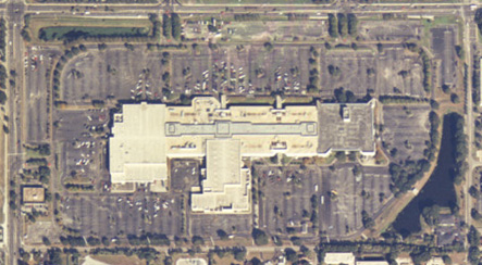 December 8, 1999 aerial photo of Tampa Bay Center